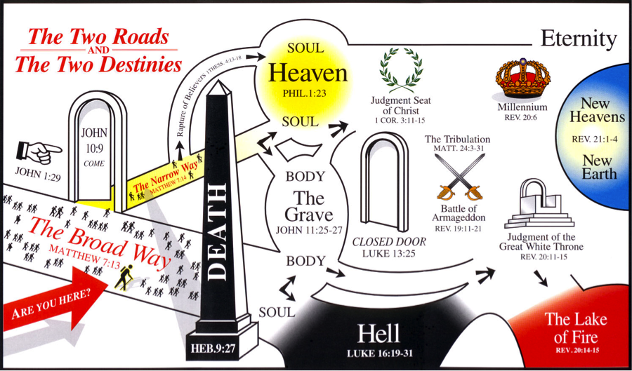 The "Two Roads Chart" is typically displayed behind the podium.